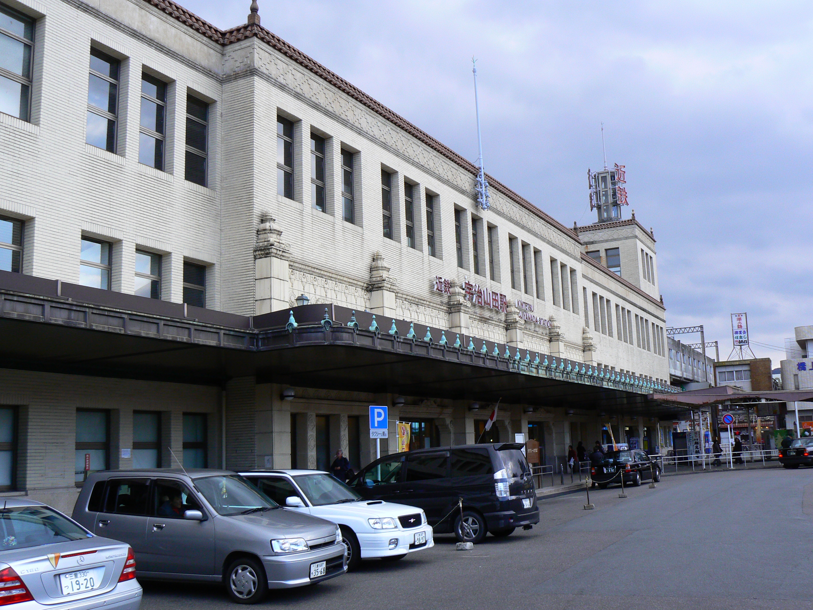 Ujiyamada Station